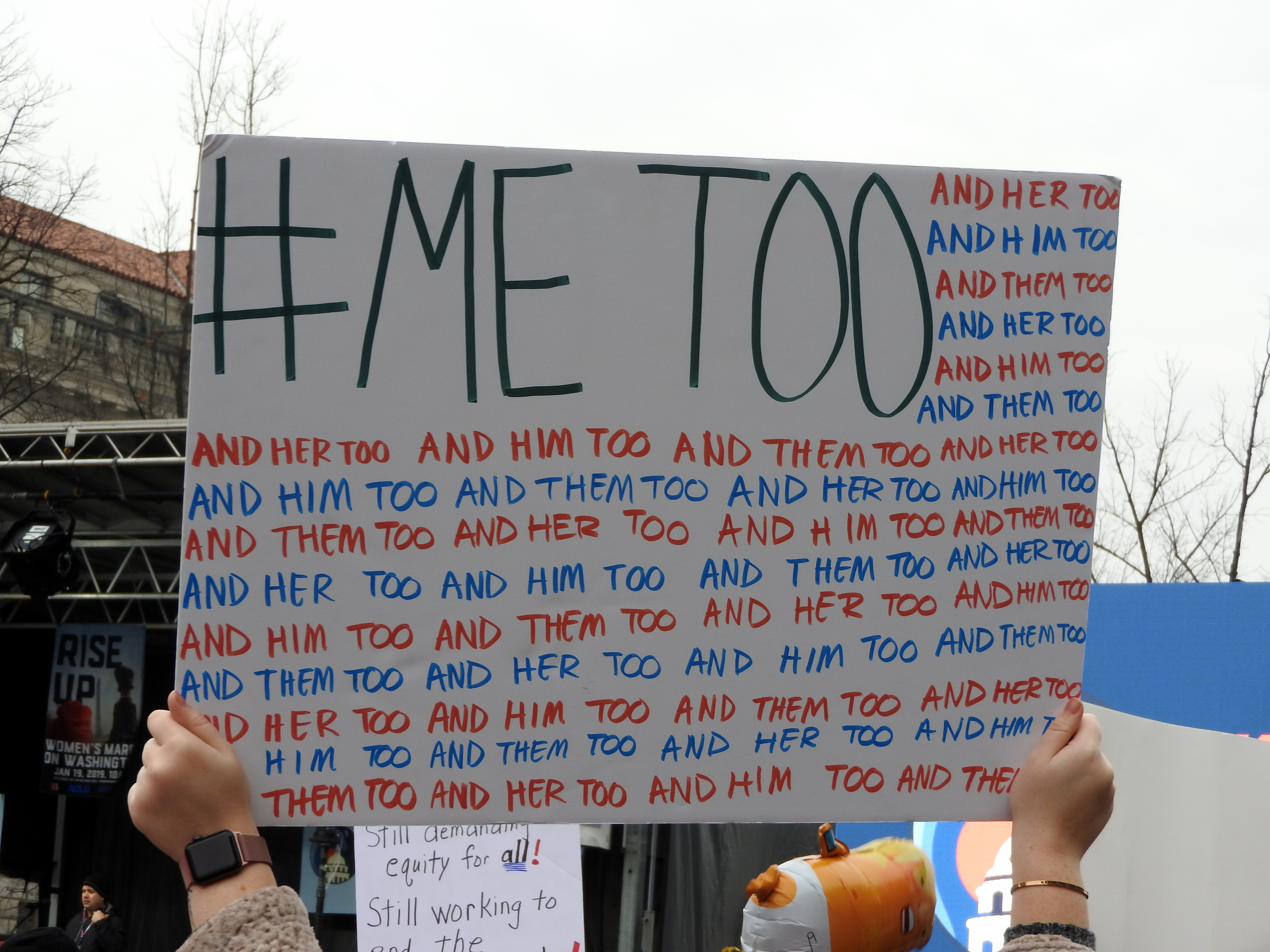 ME TOO and her too and them too and him too